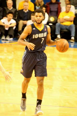 Andrew Harrison of Iowa Energy